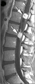 Spinal hemangioblastomas